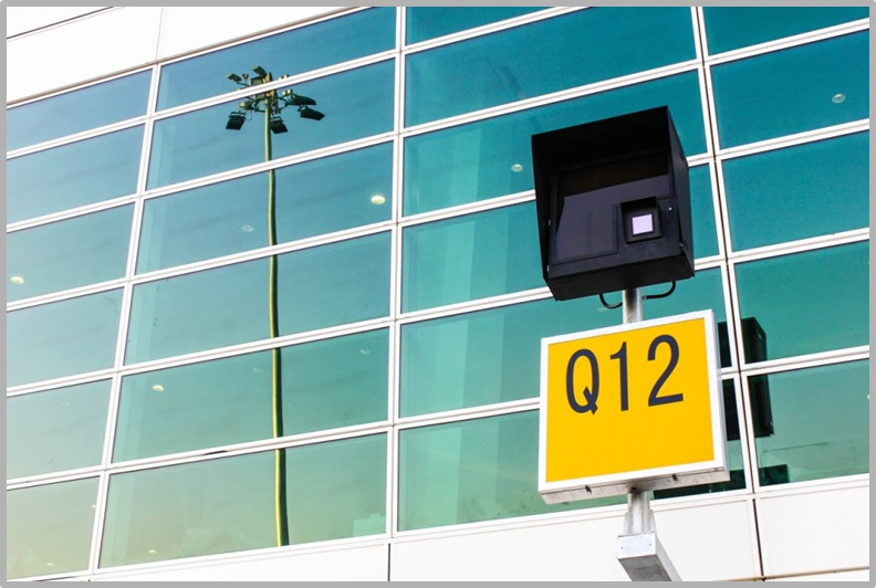 RLG Site